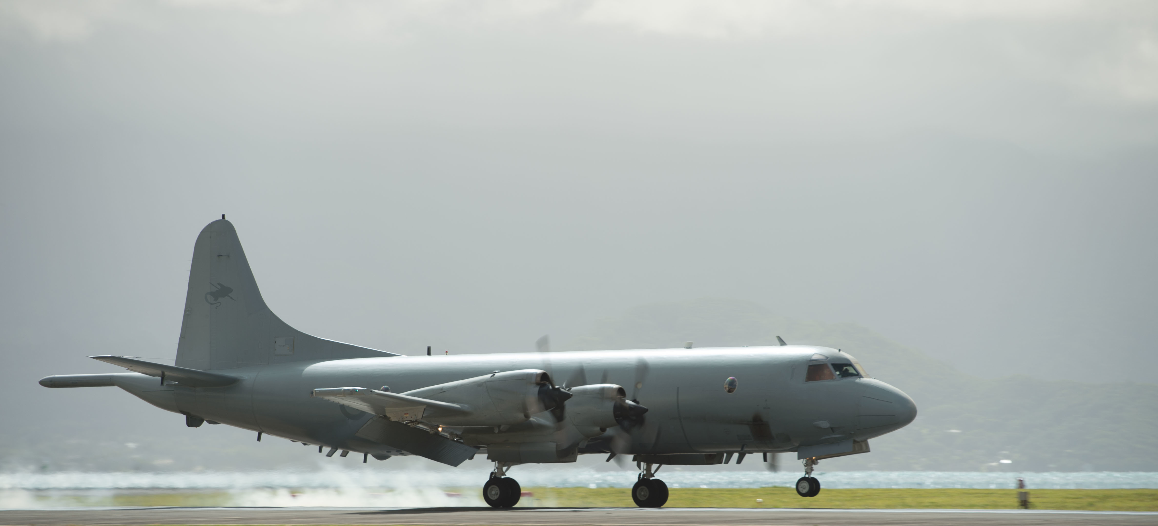 A Royal Australian Air Force Lockheed AP-3C Orion from No. 11 Squadron arrives at Marine Corps Base Hawaii, Kaneohe Bay (USA), for Exercise Rim of the Pacific 2016, on 6 July 2016. Twenty-six nations, more than 40 ships and submarines, more than 200 aircraft and 25,000 personnel were participating in RIMPAC from 30 June 30 to 4 August 2016, in and around the Hawaiian Islands and Southern California. RIMPAC 2016 is the 25th exercise in the series that began in 1971.